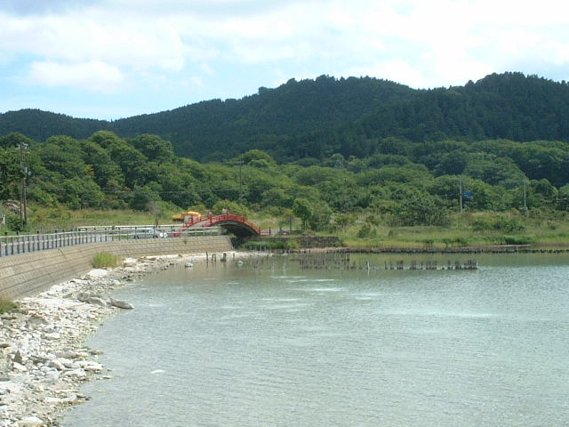 Lake Usori